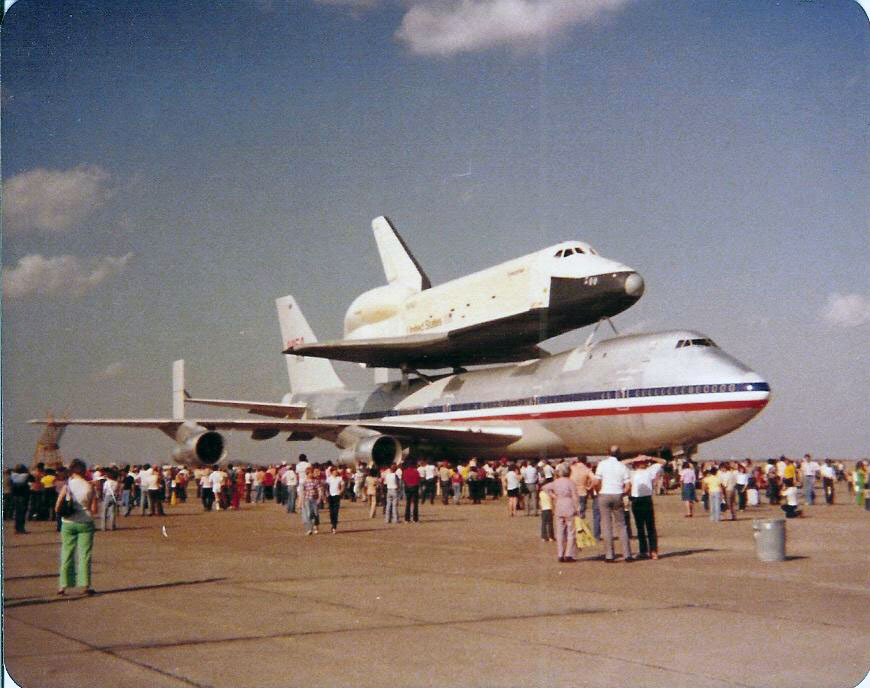 Space Shuttle Enterprise atop the Shuttle Carrier Aircraft at Ellington Airfield.